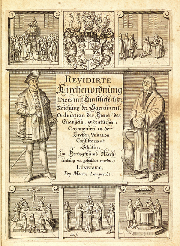 Titel page of Revidierte Kirchenordnung für das Herzogtum Mecklenburg, Lüneburg 1650; VD17:12:121755D